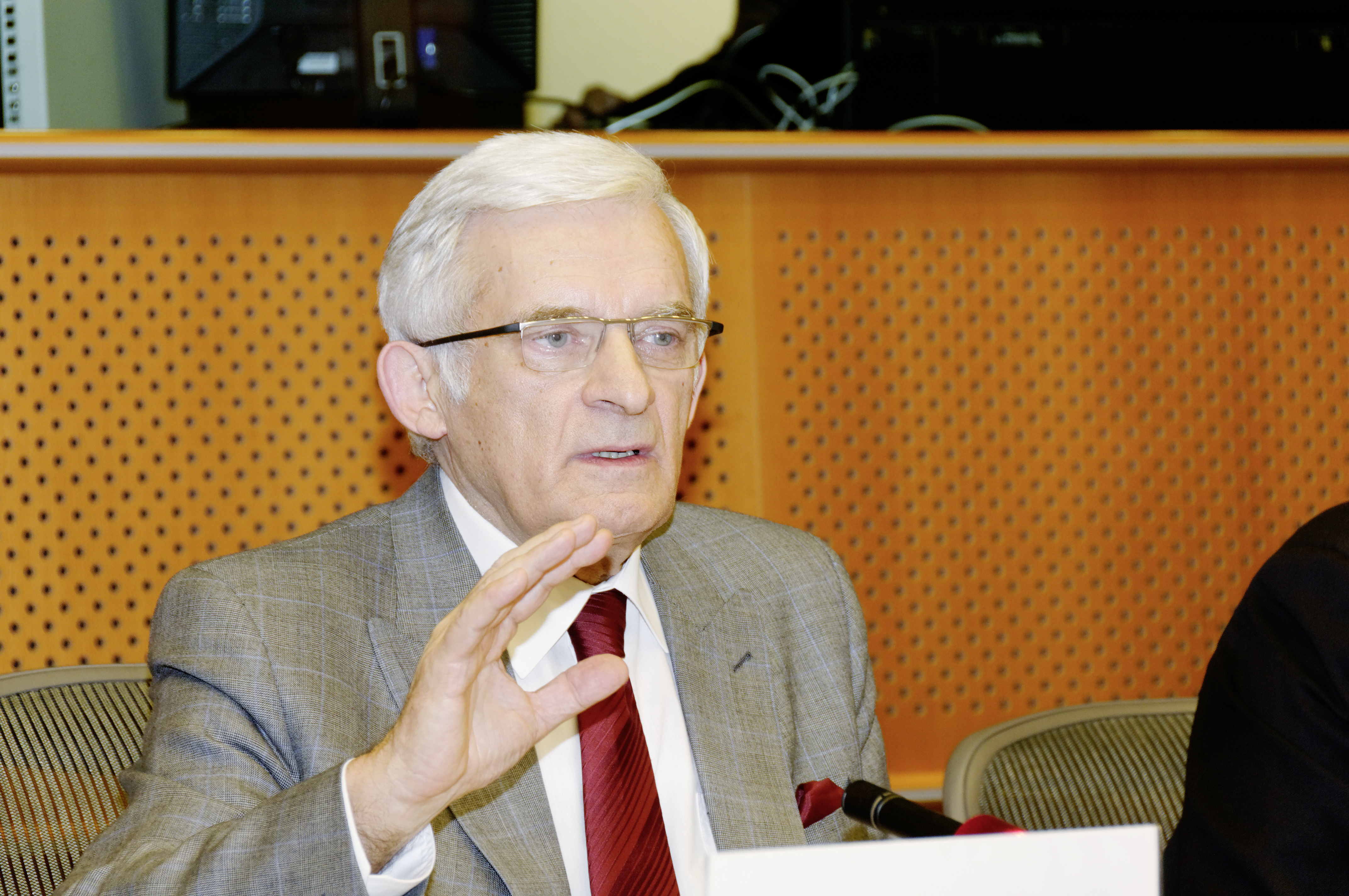 EPP Political Assembly 4-5 February 2010